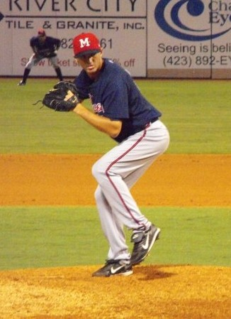 Cory Gearrin throwing warmup pitches during a game between Mississippi Braves and Chattanooga Lookouts in Chattanooga TN June 20, 2009 taken with my own Camera Camera Brand: FUJIFILM Camera Model: FinePix S1000fd Image Type: jpeg (The JPEG image format) Width: 3648 pixels, Height: 2736 pixels- original size (cropped for better image) Date Taken: 2009:06:20 09:38:02